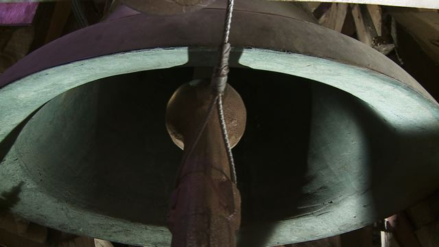 kleine Glocke This is a photograph of an architectural monument. 031c